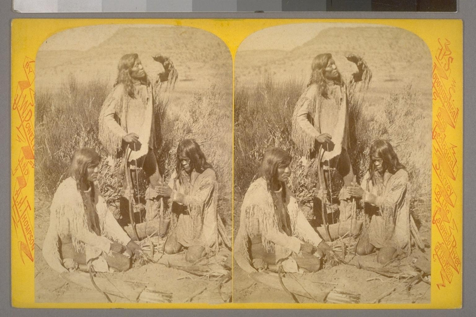 Stereoviews of Indians and the Colorado River from the J.W. Powell Survey. Serise Title: "U.S. Topographical and Geological Survey of the Colorado River of the West" Place of Publication: Washington, D. C. Publisher: J. F. Jarvis/ J. W. Powell and A. H. Thomson. Photographer: Jack Hillers